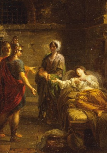 ARETE APPEALING TO HER PRISON GUARDS